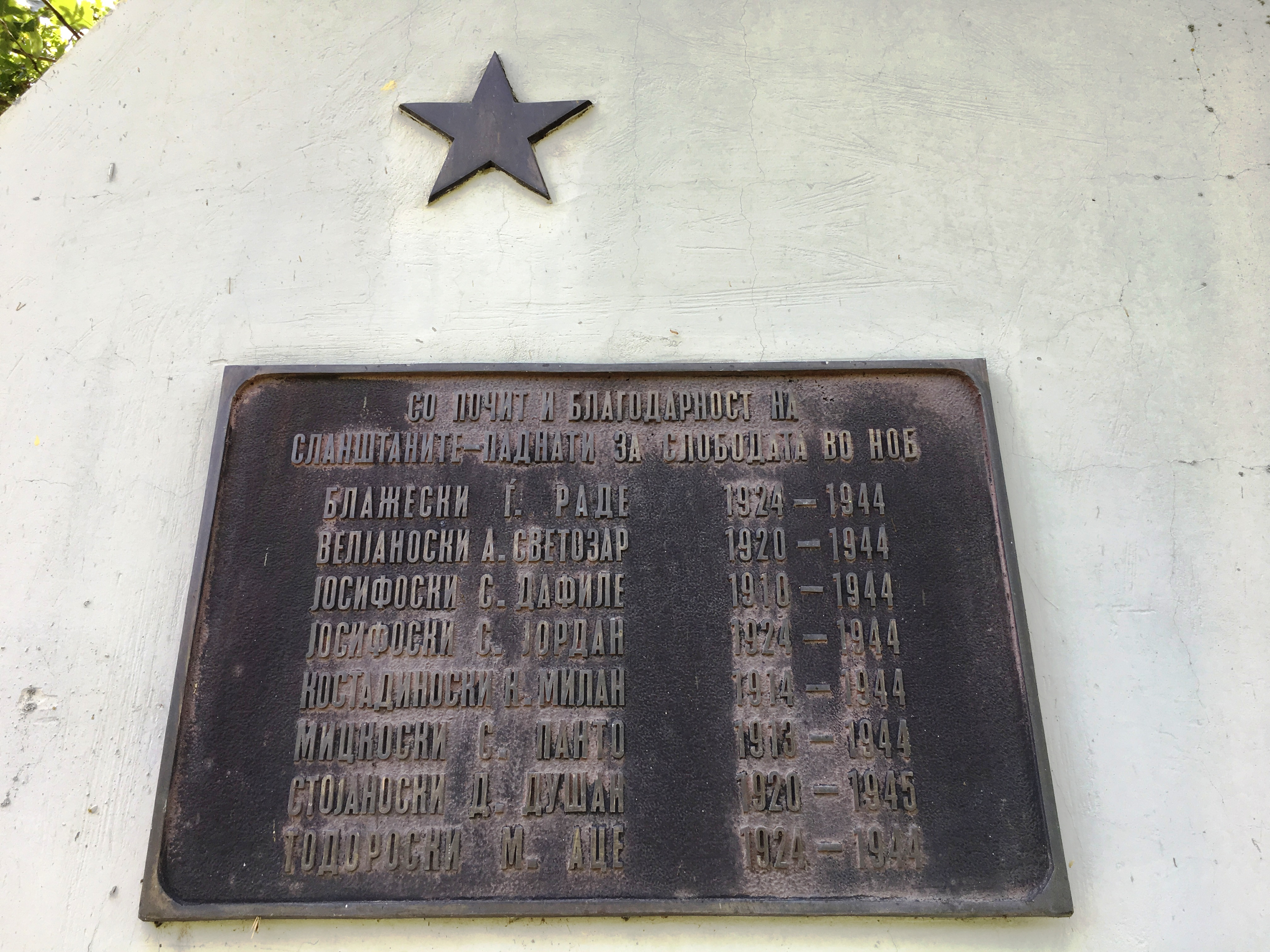 World War II monument in the village of Slansko